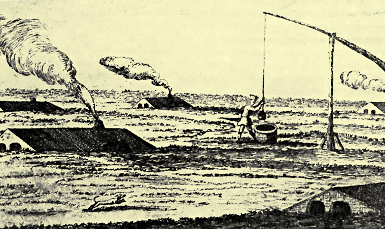 Drawing in Srem, Vojvodina by traveller Edward Browne, ca. 1666.